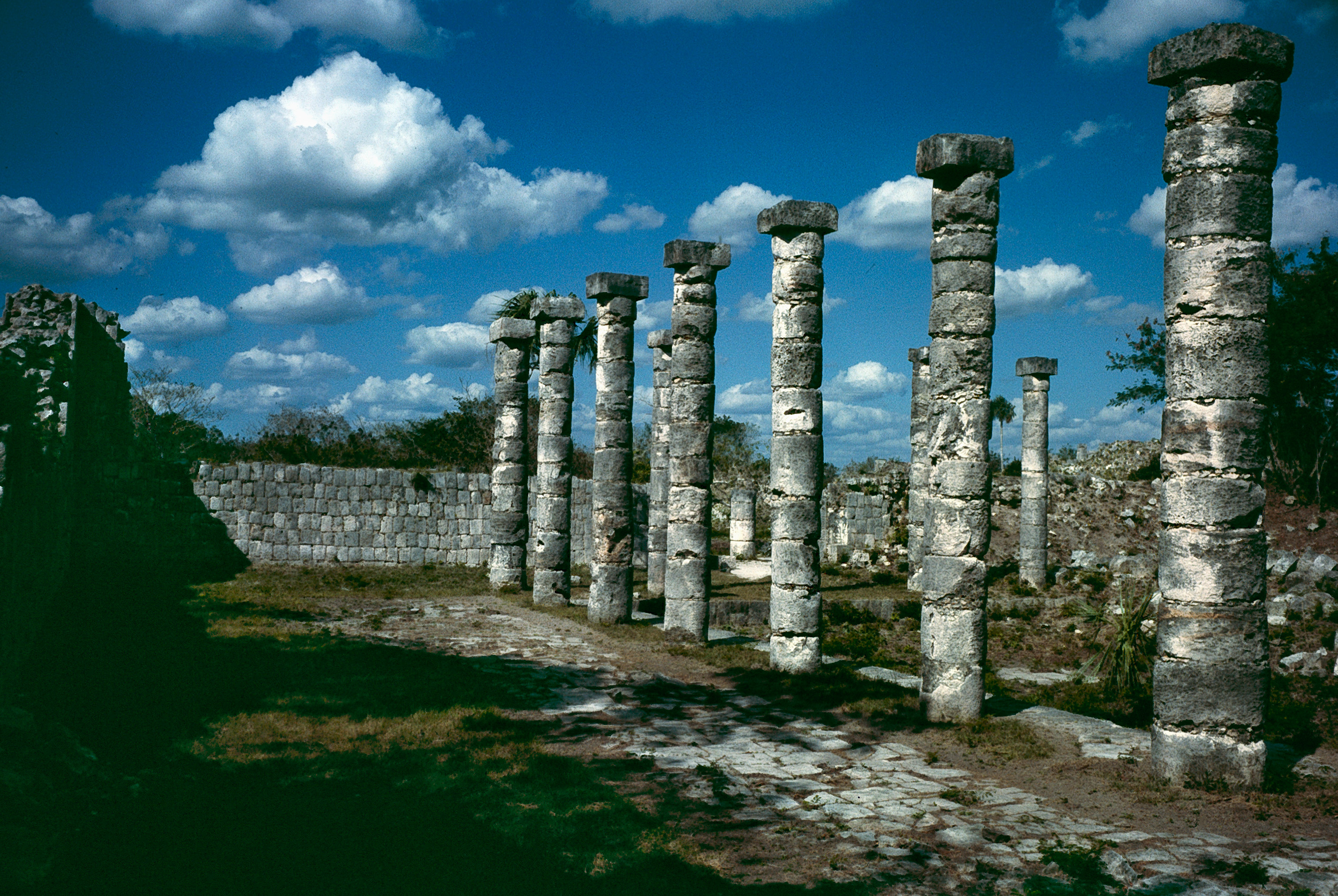 Chichen Itza, Yucatan, Mexico: Mercado